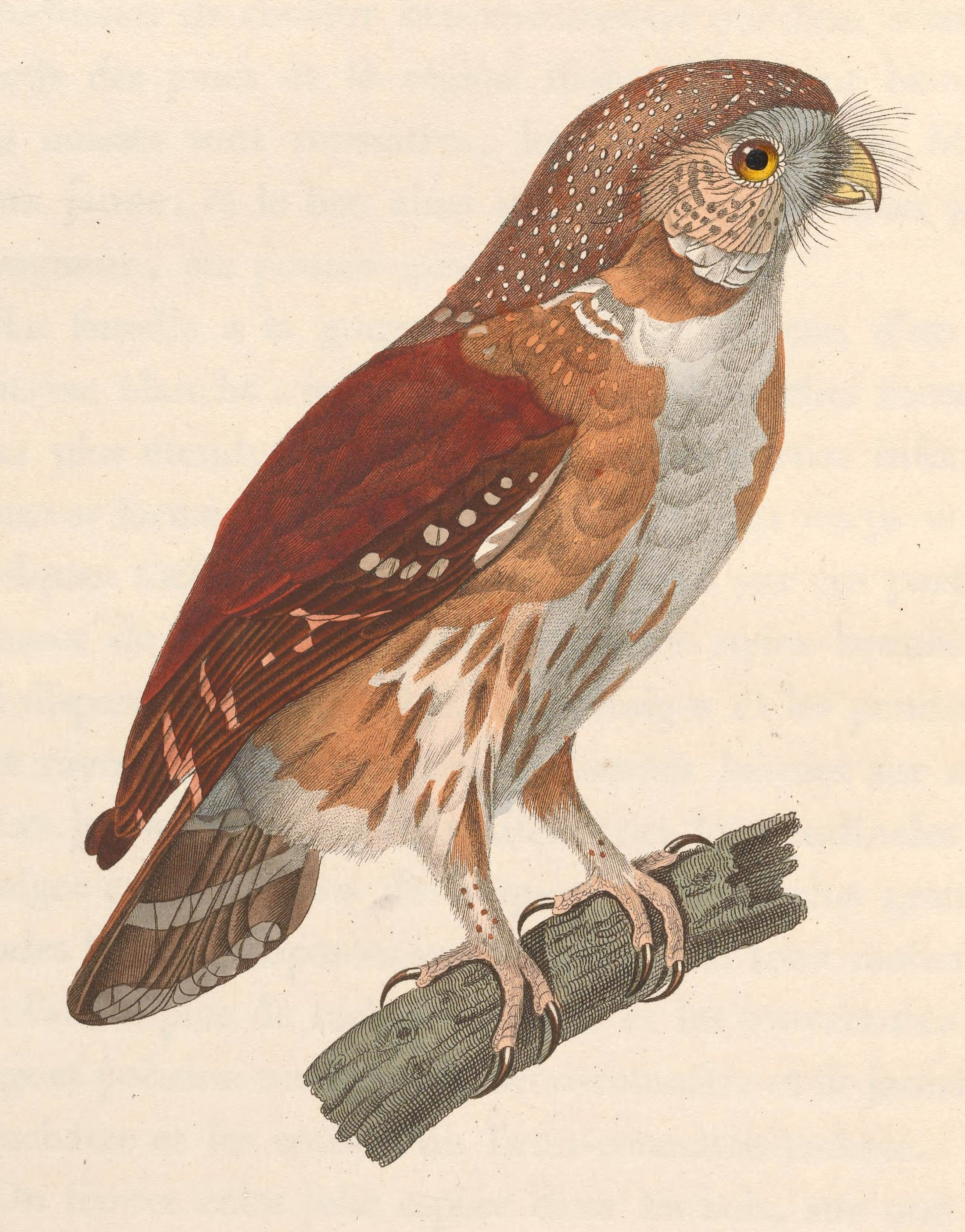 « Strix pumila » = Glaucidium minutissimum (East Brazilian Pygmy Owl) - female